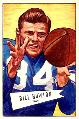 American football player Billy Howton on a 1952 Bowman Large card.